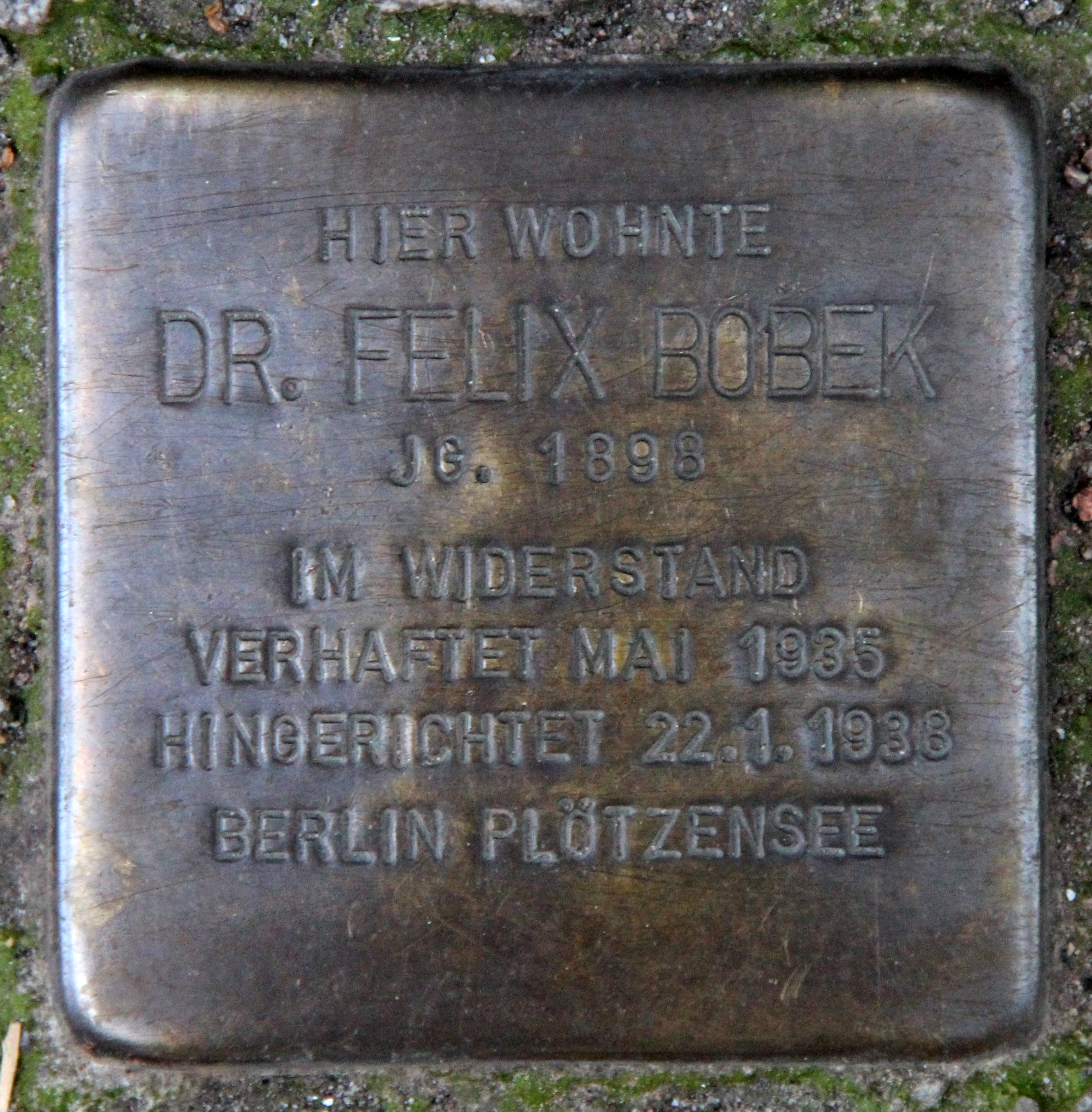 "Stolperstein" (stumbling block), Felix Bobek, Wilhelmstraße 24, Berlin-Kreuzberg, Germany